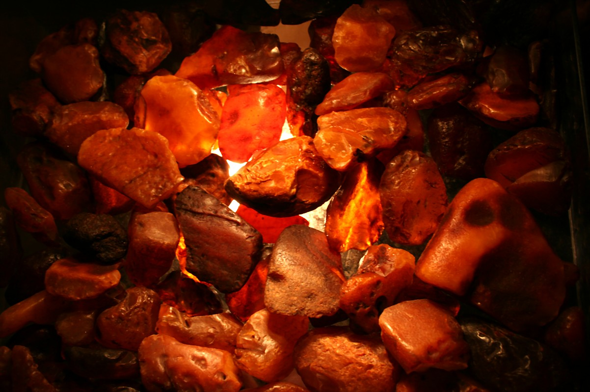 Amber - many dark stones (behind illuminated)